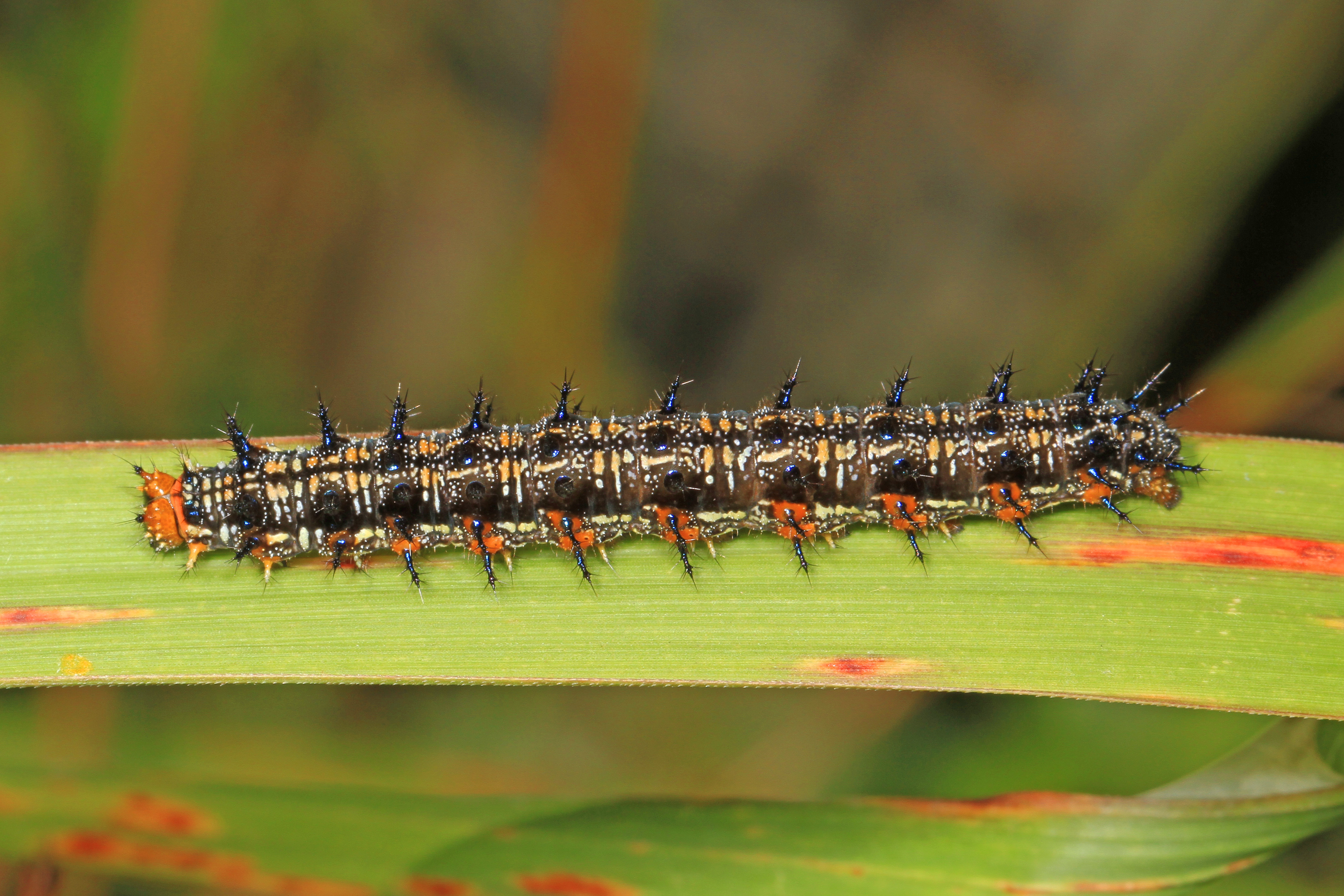 Common Buckeye caterpillar - Junonia coenia, Occoquan Bay National Wildlife Refuge, Woodbridge, Virginia